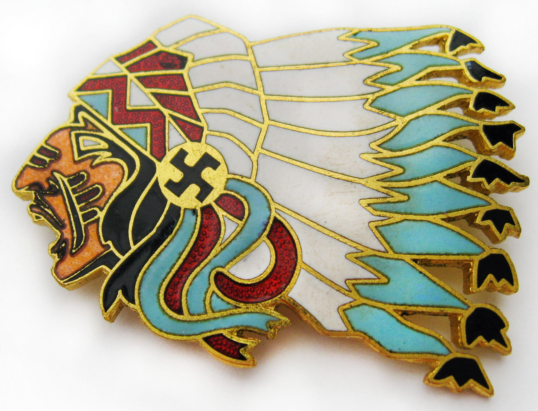 Lafayette Escadrille Pin. This Lafayette Escadrille pin belonged to Charles Heave "Carl" Dolan Jr., who in 1915 was the 31st volunteer of the Lafayette Escadrille (Escadrille N. 124), which was a group of 38 Americans who volunteered to join the French Flying Corps before the United States entered World War I. Dolan, along with the majority of the Lafayette Escadrille members, transferred into the United States Air Service as the 103rd Aero Squadron on Feb. 18, 1918. (U.S. Air Force photo). Note: It was a common practice among early aviators in the beginning of the 20th century to use swastika as a symbol of good luck and auspiciousness reflecting its usage in a larger society at the time. After the Nazis, swastika acquired its contemporary negative connotation.